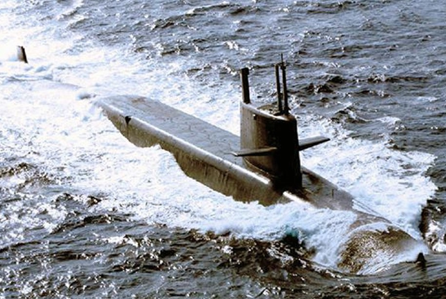 USS Simon Bolivar surfaced with snorkel & masts up